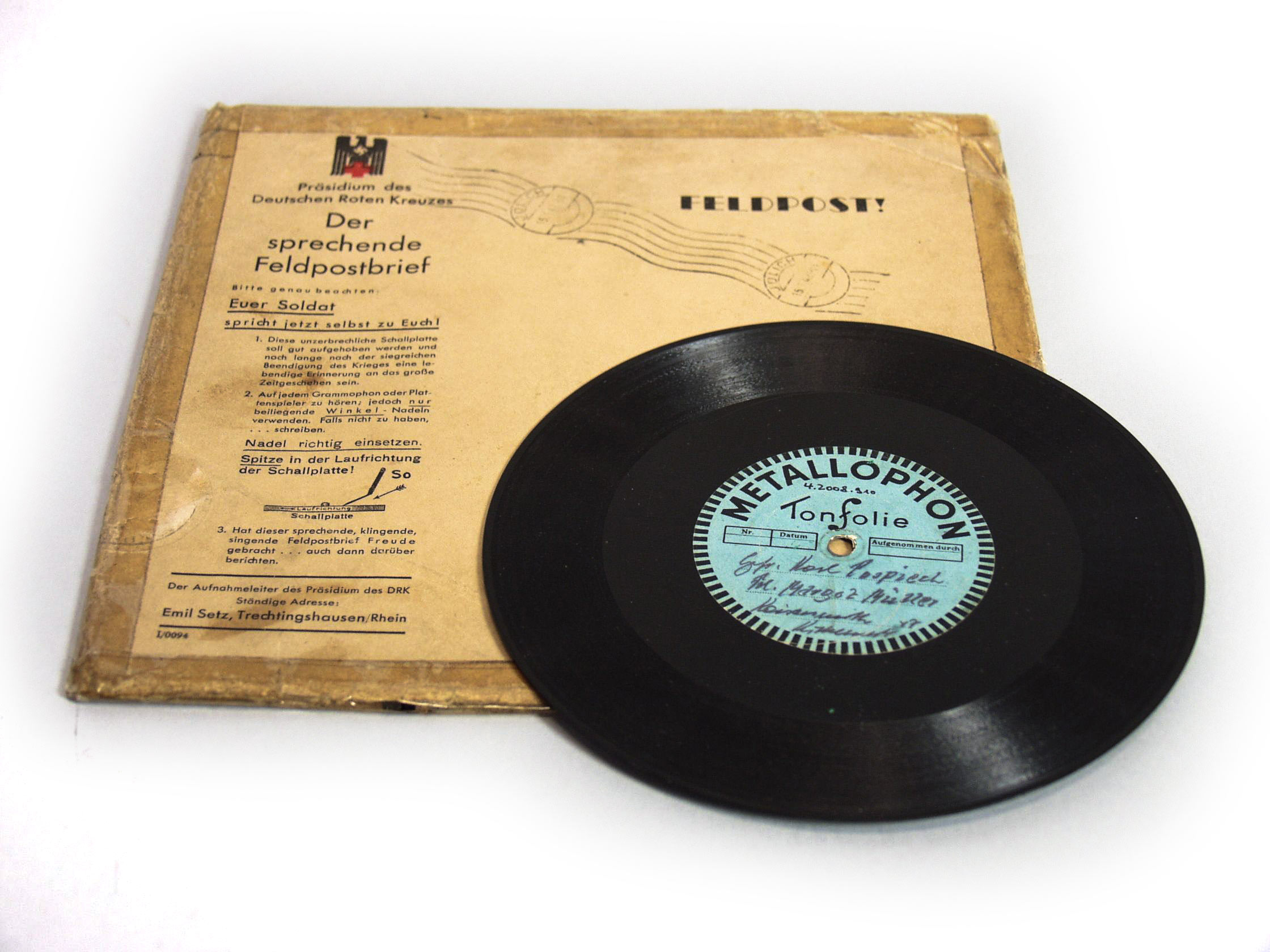 Fonopost by the German Red Cross, ca. 1941, containing a personal address of a german soldier to his family at home.